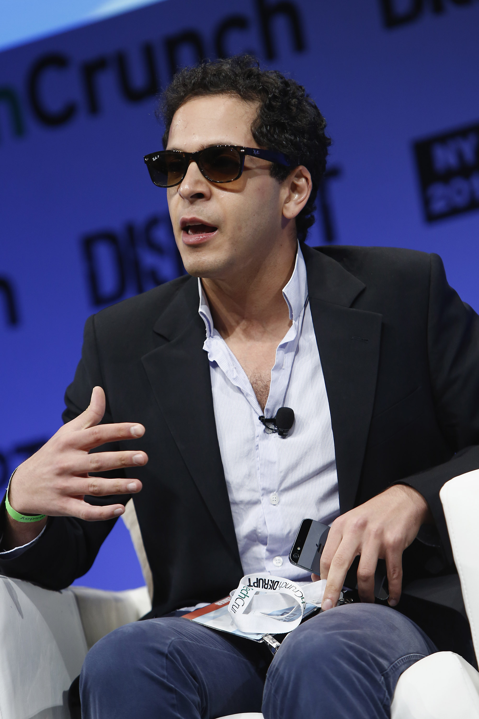 NEW YORK, NY - MAY 01: Mahbod Moghadam of Rap Genius speaks onstage at TechCrunch Disrupt NY 2013 at The Manhattan Center on May 1, 2013 in New York City. (Photo by Brian Ach/Getty Images for TechCrunch)